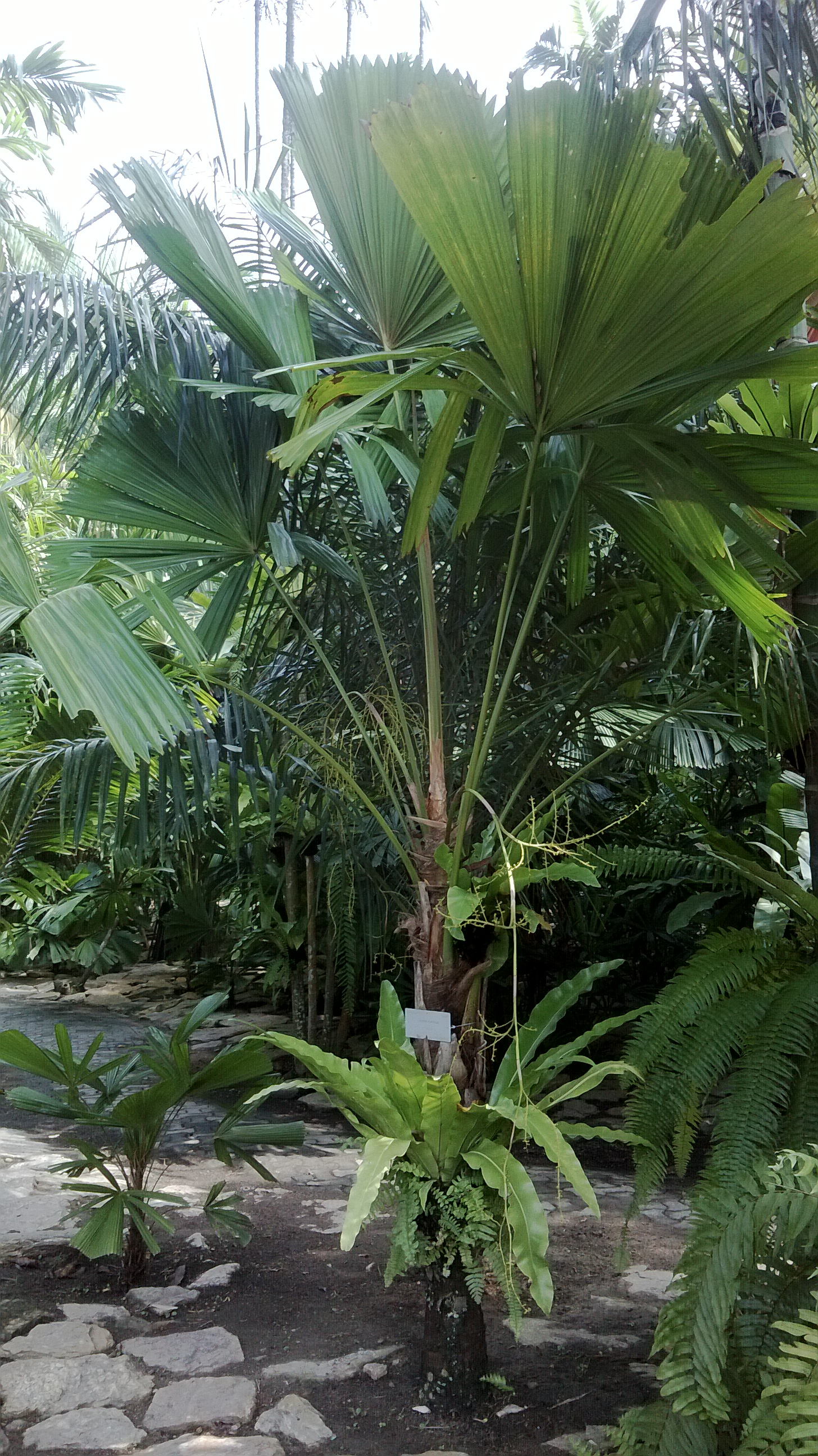 Licuala ramsayi. Nong Nooch Tropical Garden. Thailand.